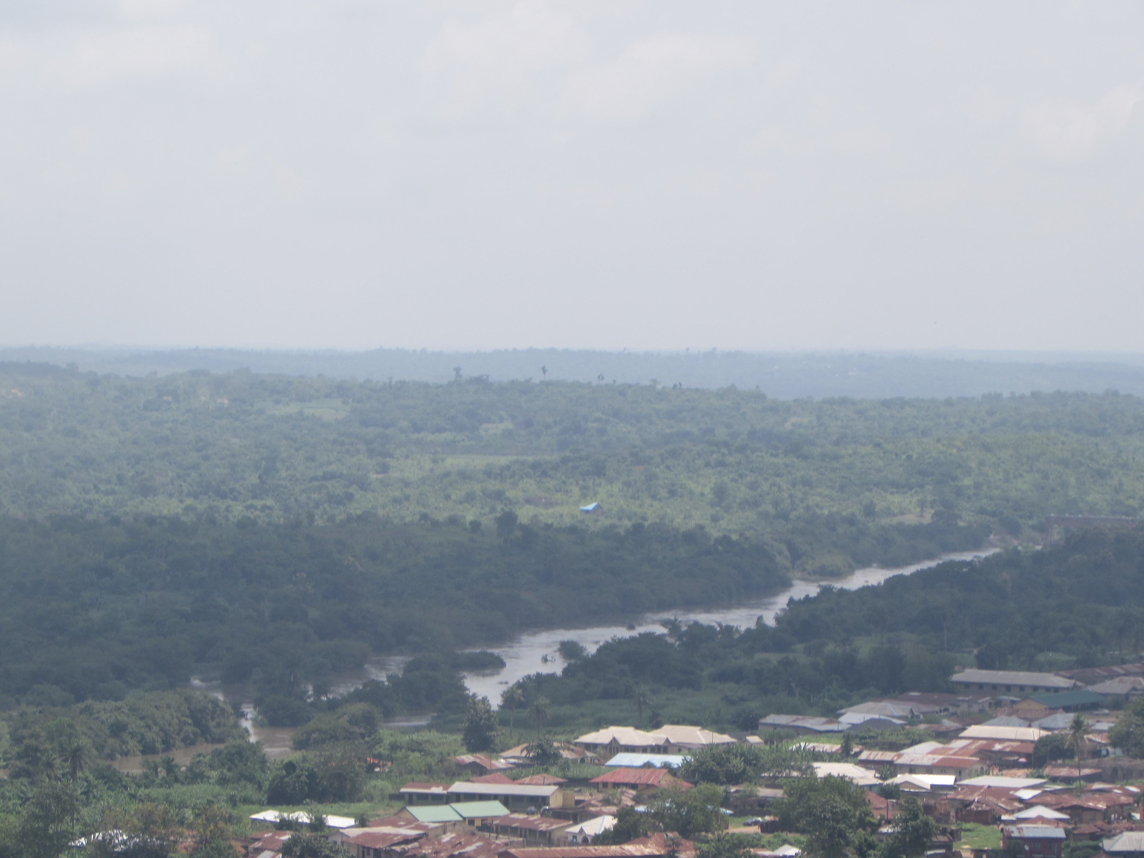 view of ogun river from olumo rock